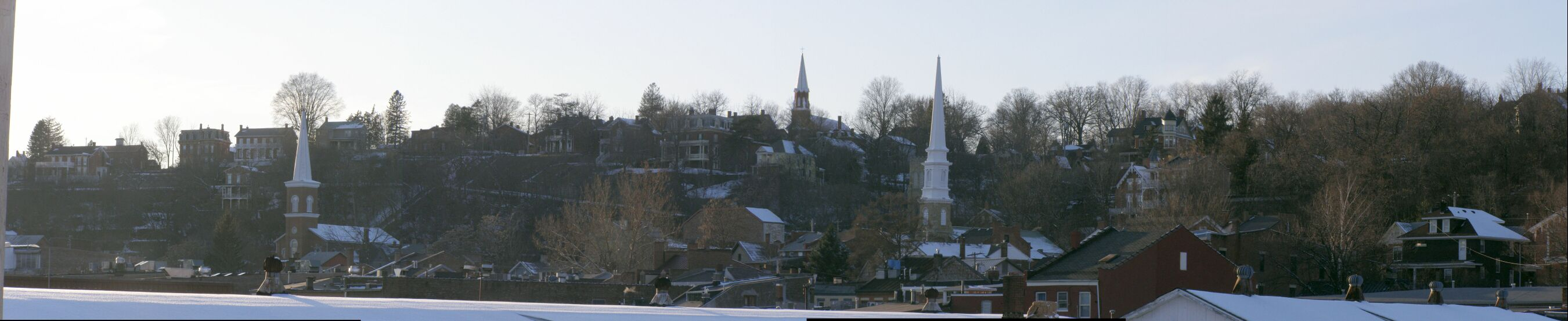 Panoramic View of Galena, Illinois, United States.